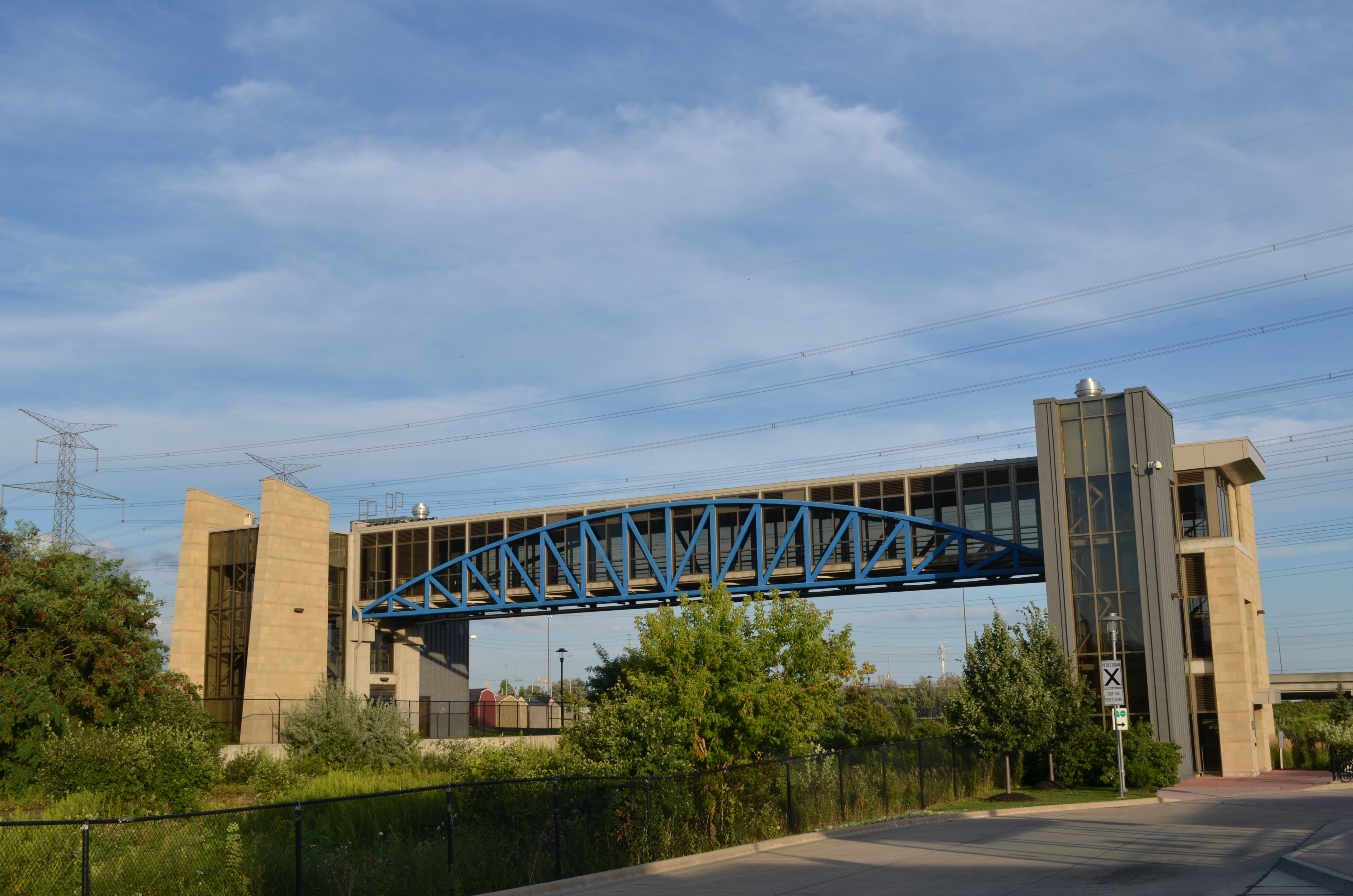 Richmond Hill Centre Terminal connecting bridge to Langstaff GO Station